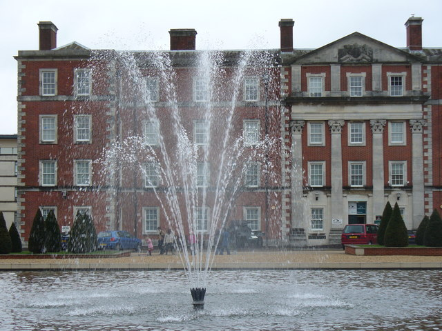 The Gurkha Museum The northern frontage of Peninsula Barracks, facing into Peninsula Square, houses the museum to the famous regiments of Nepalese soldiers.